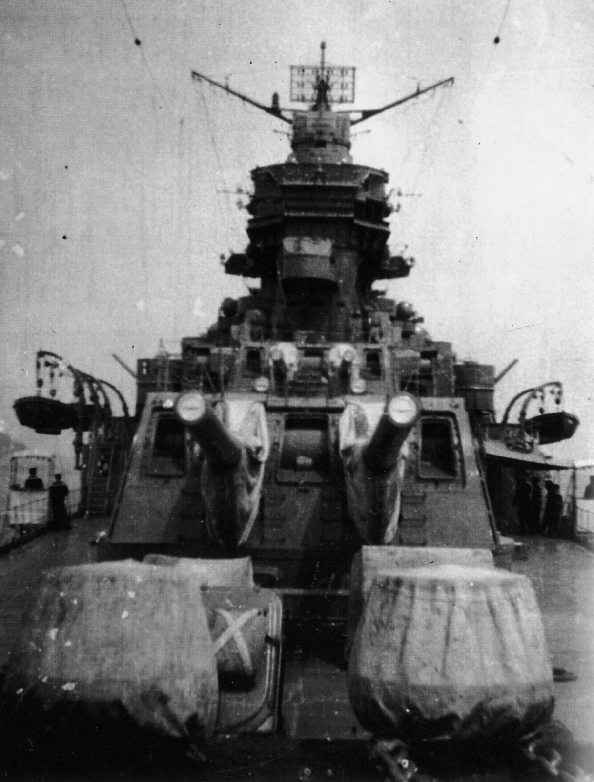 Forecastle and front gun turrets of the Mogami after conversion as an aircraft cruiser, august 1943.